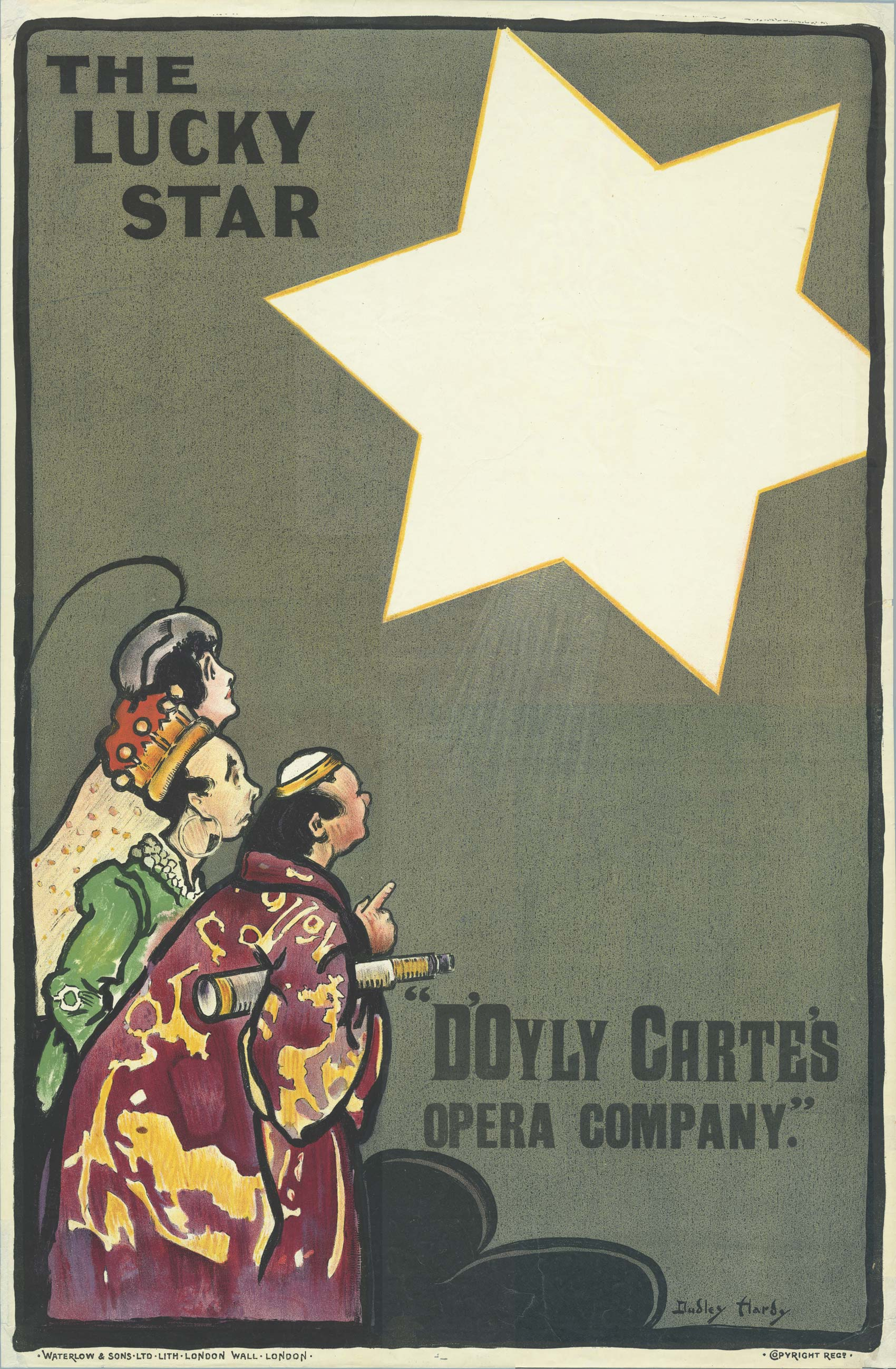 Poster for The Lucky Star, 1899